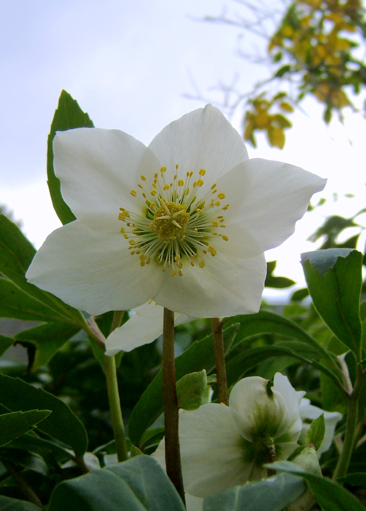 Christmas rose, Black hellebore